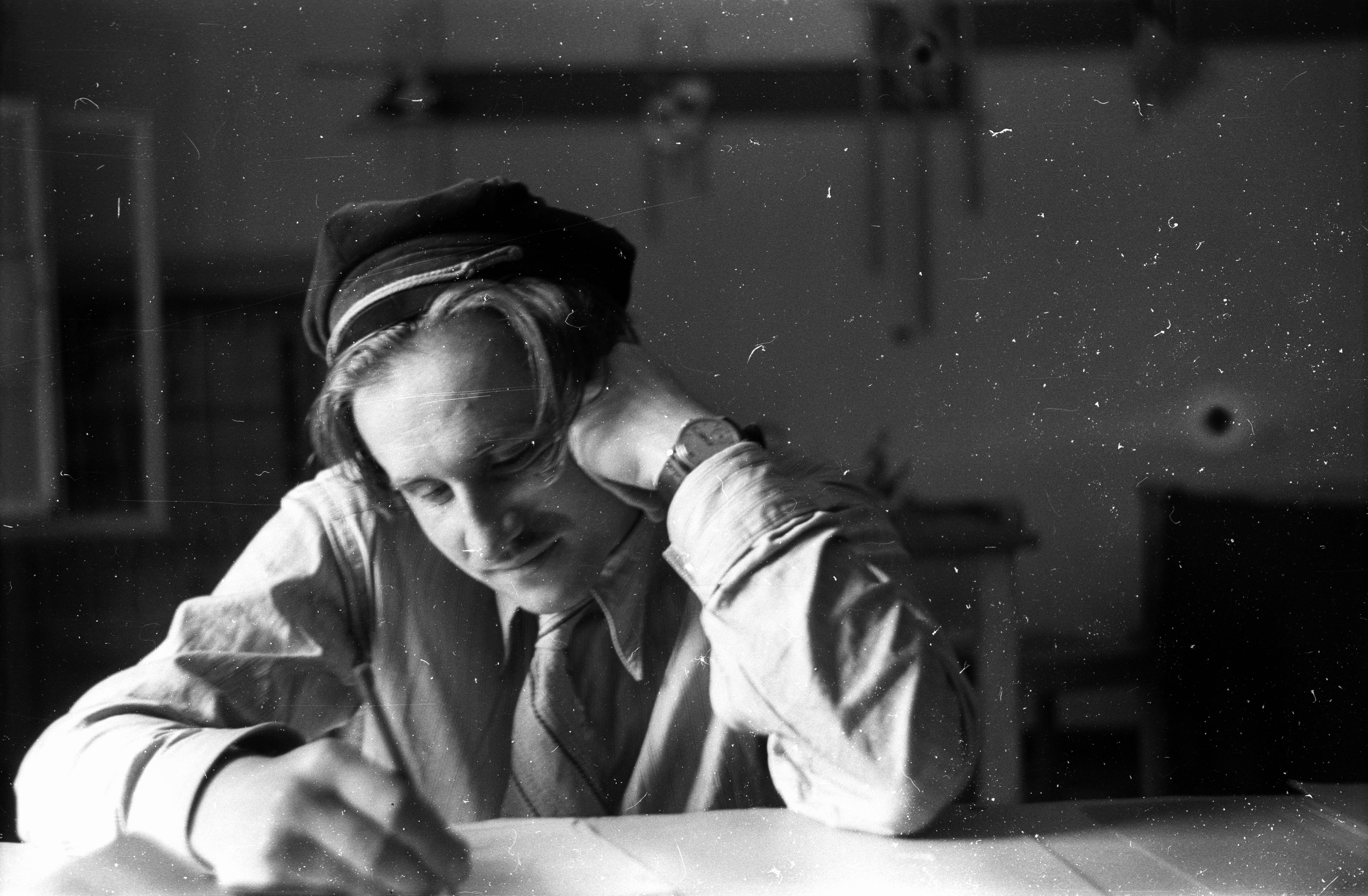 Wojciech Kasprzycki as a student